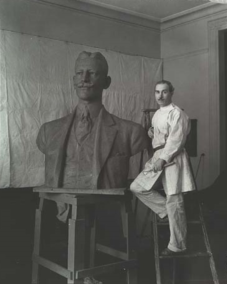 "Pietro Montana in his studio." Cropped. The Peter A. Juley & Son Collection of photographs was donated to the Smithsonian American Art Museum.